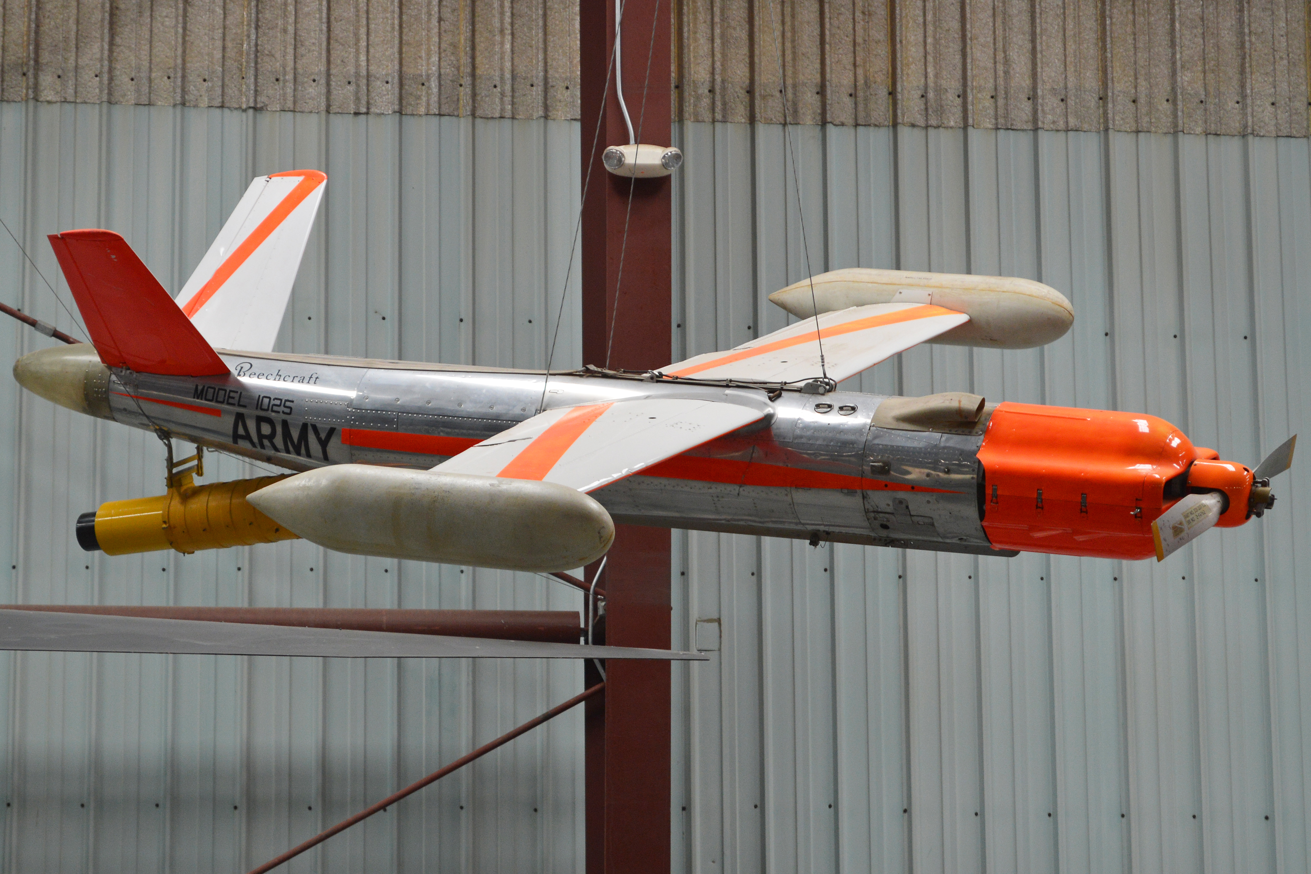 Used as a target drone, the MQM-61A was the U.S.Army variant, also known as the model 1025. Some 2,200 of all Cardinal variants were produced. On display in Hangar 3 at the Yanks Air Museum, Chino, California, USA. 28-2-2016.